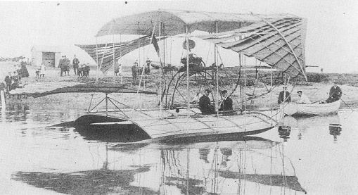 Unsuccessful flying boat known as Humphreys Biplane, Humphreys Waterplane or Wivenhoe Flyer built by a British dentist Jack Edmund Humphreys in 1909